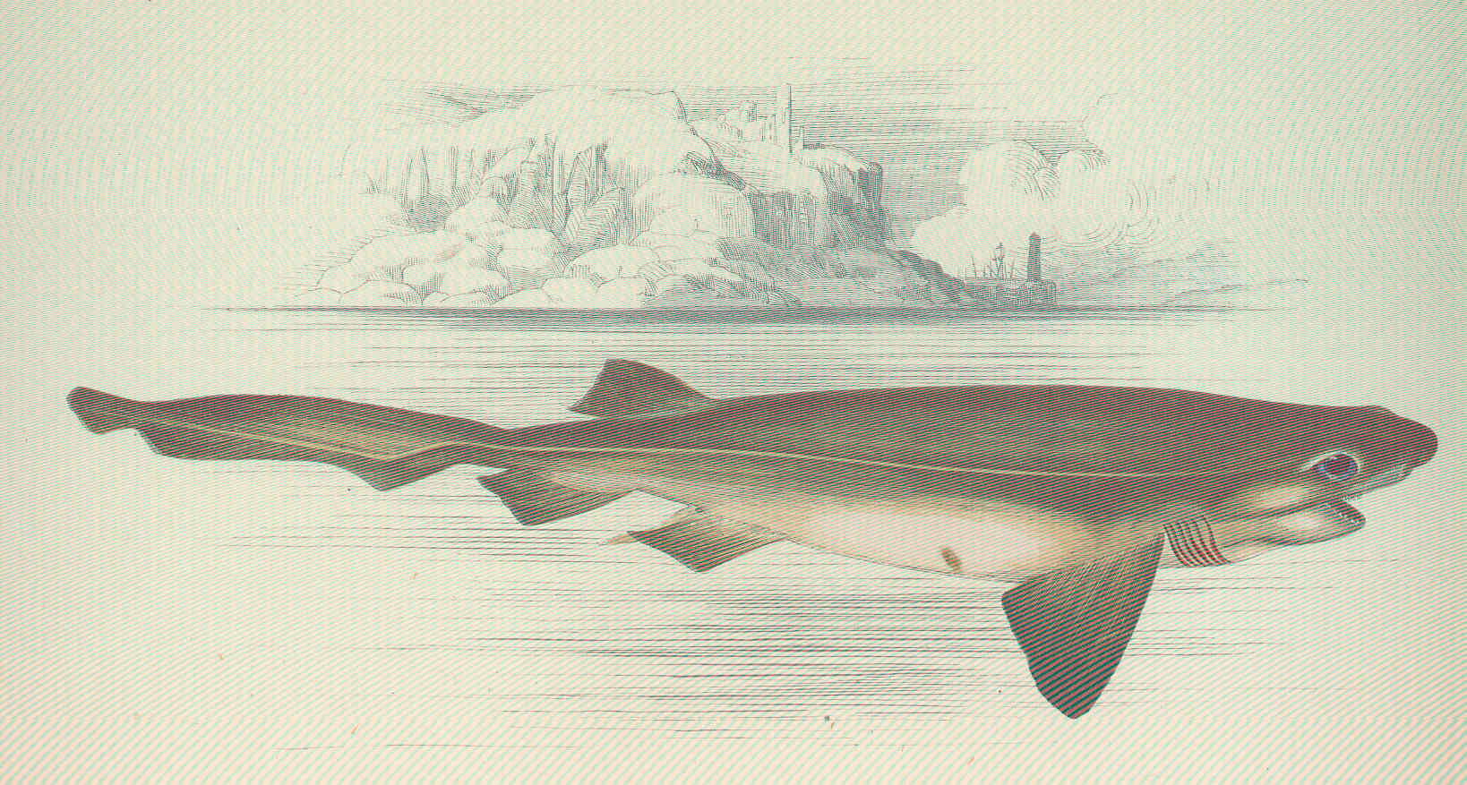 Six-Gilled Shark Six-Branchial Shark Grey Shark Squalus griseus Squale Griset Grey Shark Hexanchus griseus Notidanus griseus Subject: Squalus Tag: Fish